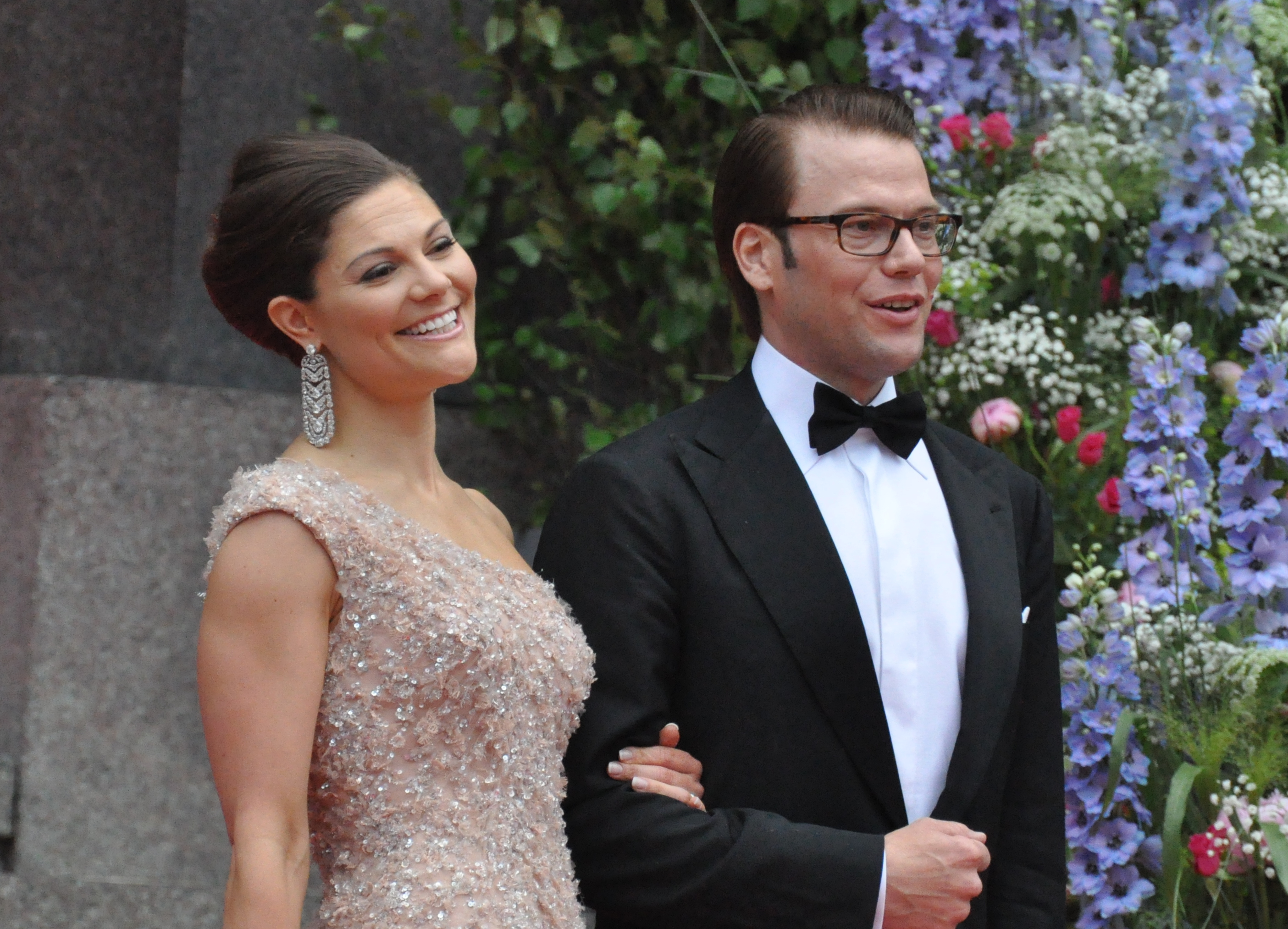 Wedding of Victoria, Crown Princess of Sweden, and Daniel Westling; Arrival to the Riksdag's Gala Performance at Konserthuset: HRH Victoria and Daniel